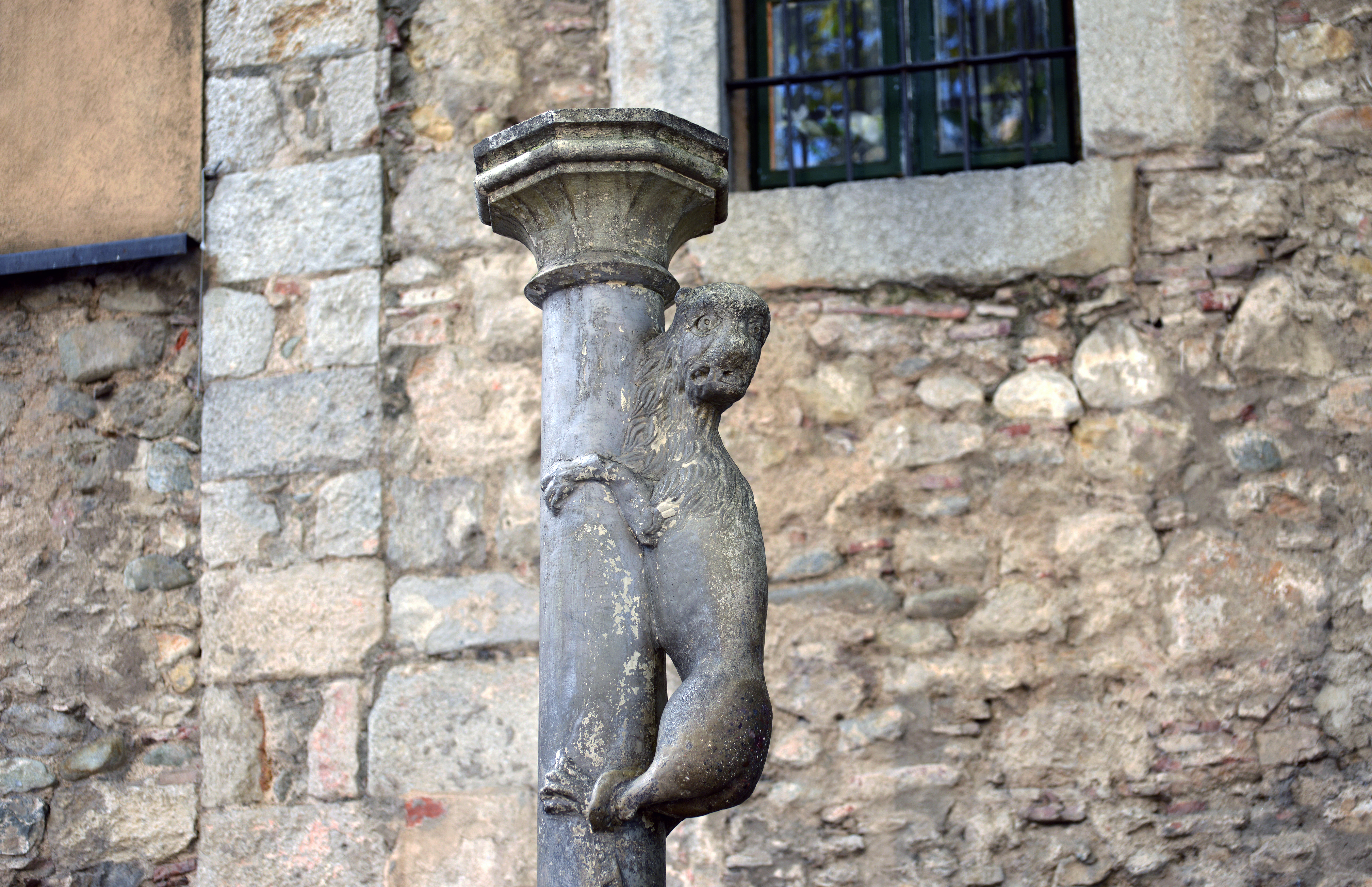 La Lleona. At the Plaça de Sant Feliu, it’s possible that you can see somebody kissing a lioness. Many years ago, in Calderes street was the Lioness Hostal. In order to attract people, there was a lioness climbing a column on the wall. Anyone passing by could touch its bottom without difficulty. Over time, the custom was changed; instead of touching the ass, someone began to kiss it. This custom is still alive. The hostal disappeared and the column got moved to its current location, next to the church of Sant Feliu.